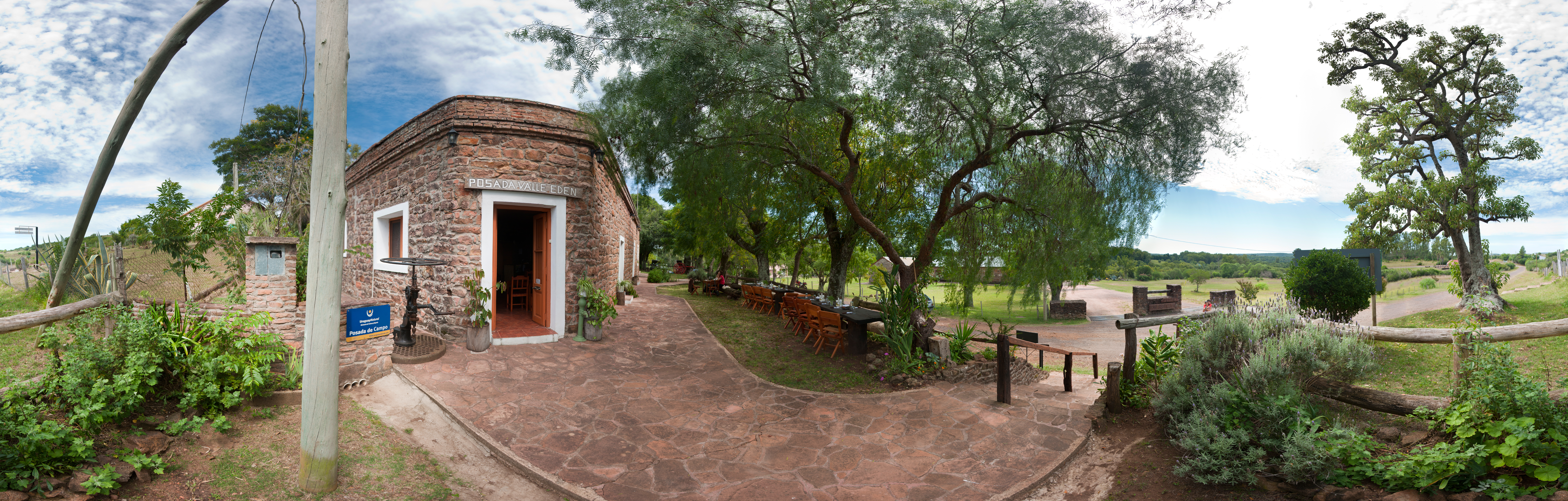 Posada Valle Eden. Valle Eden, Tacuarembó, Uruguay